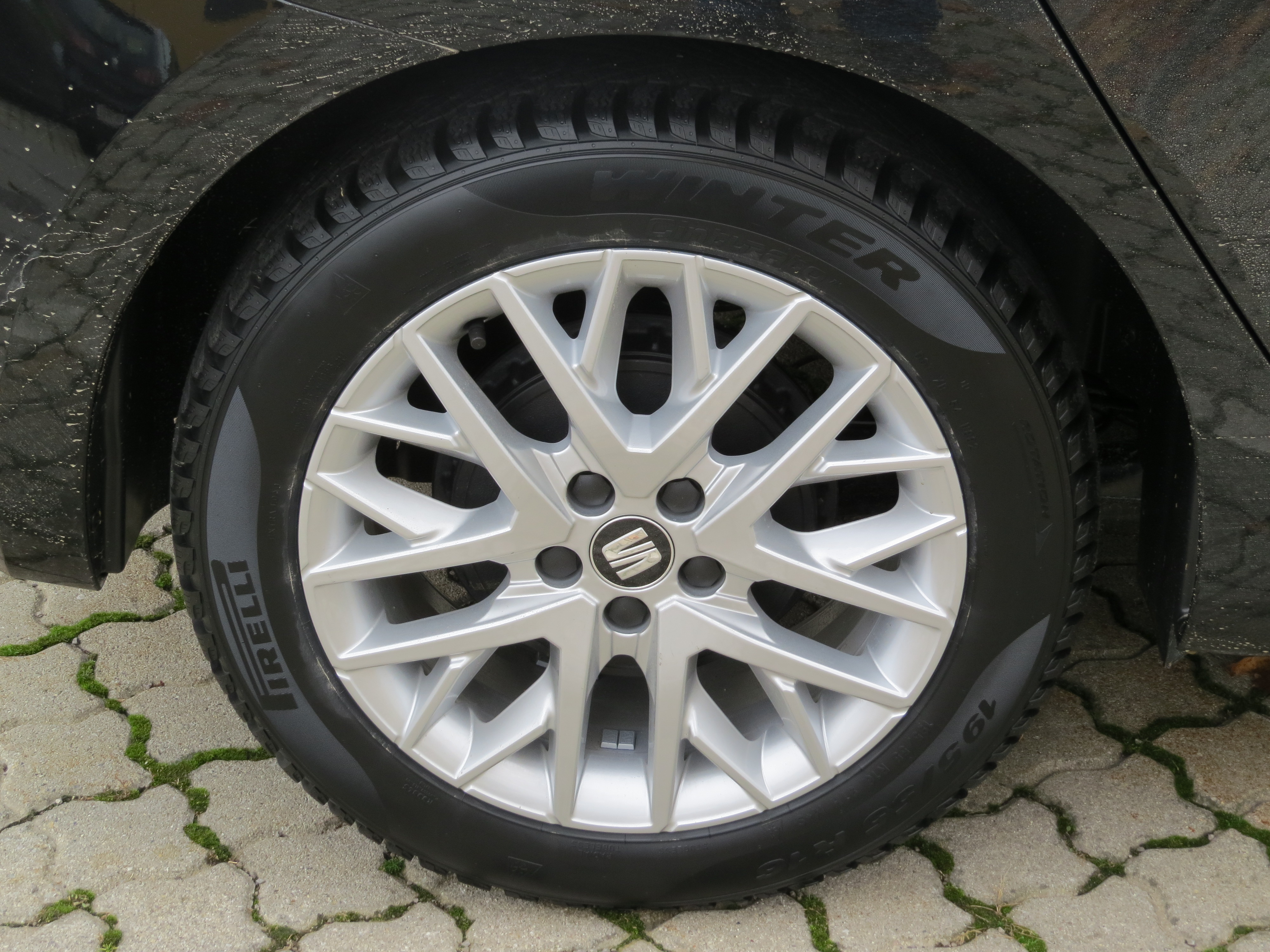 Pirelli Cinturato Winter 195/55 R 16 91 H tire at Bahnhof Tulln an der Donau, Austria